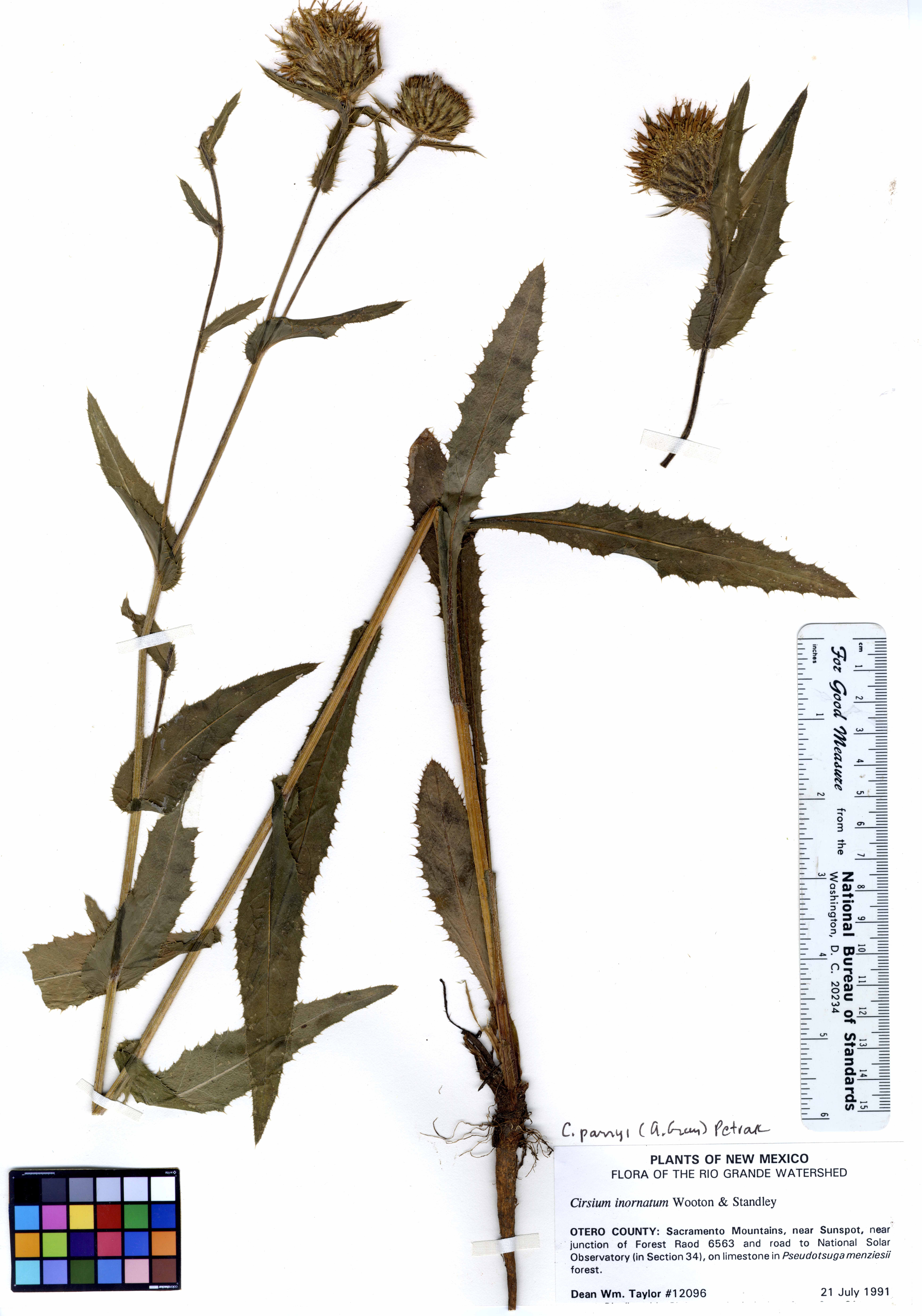 Cirsium parryi herbarium specimen